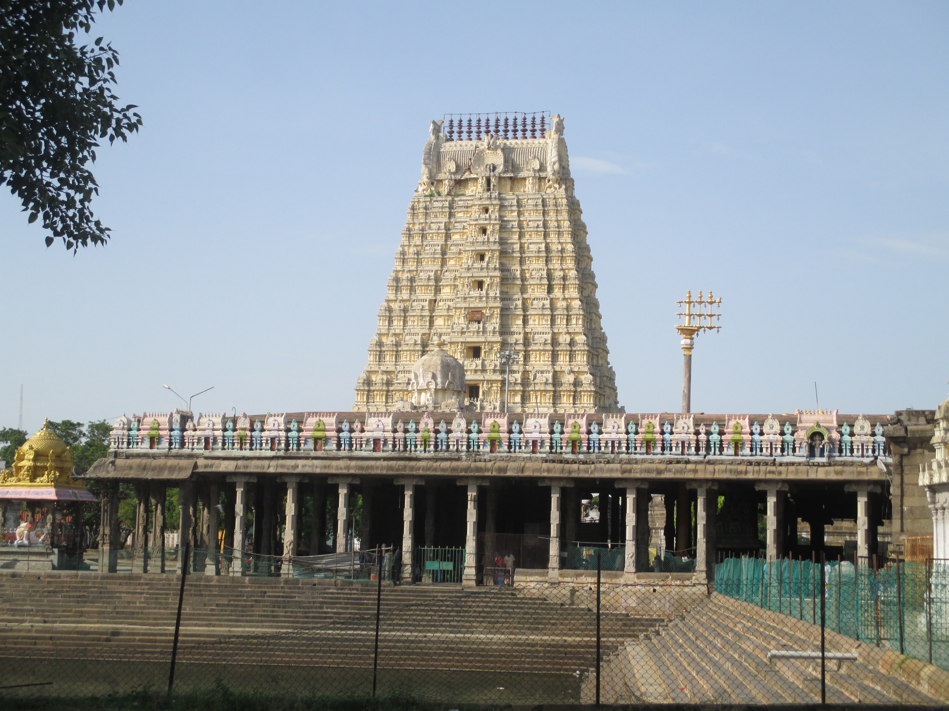 Ekambareswarar Temple